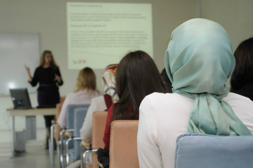 Lecture at MRU